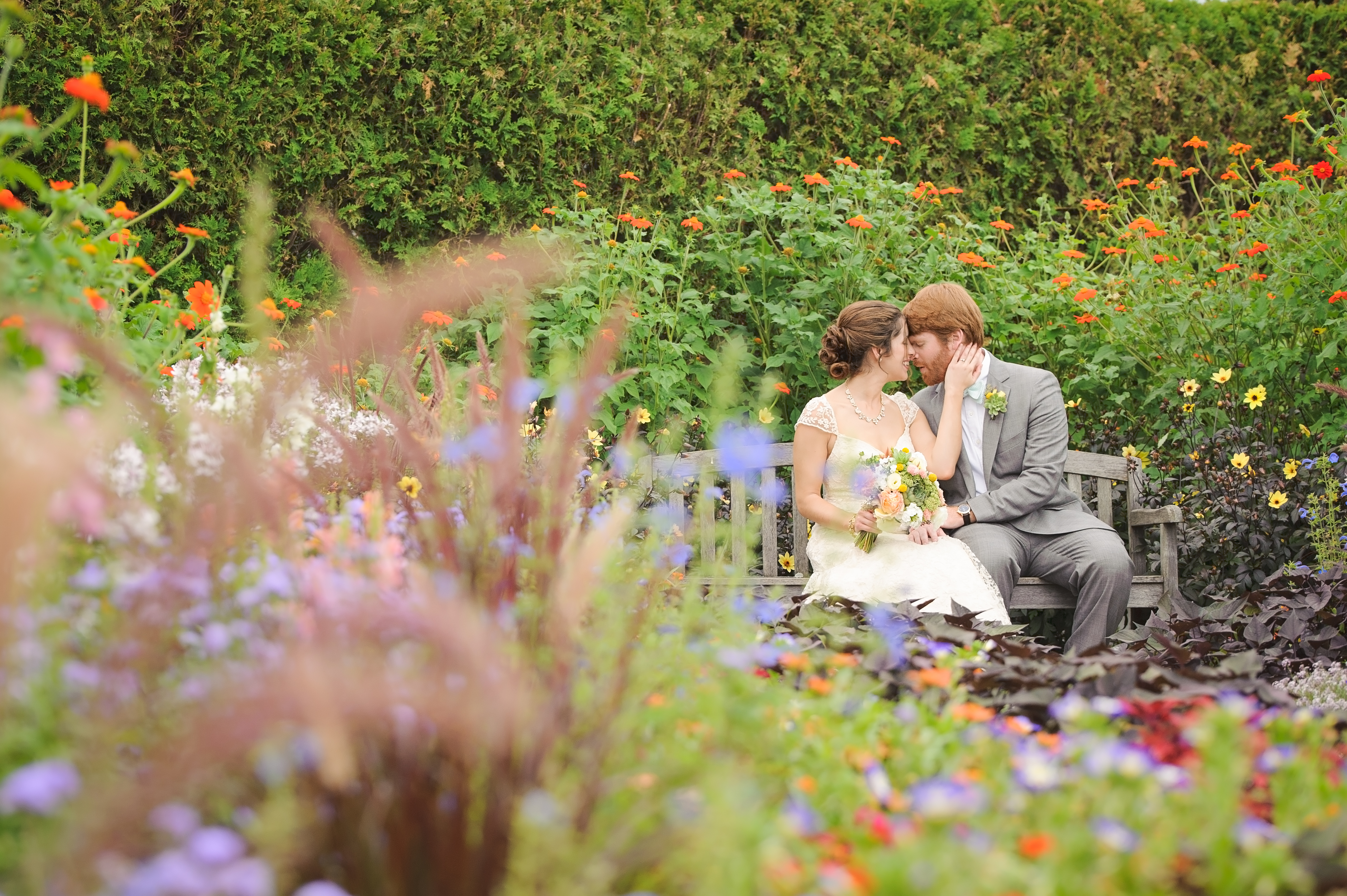 Bride and groom on their wedding day at Pineland Farms in New Gloucester, Maine.